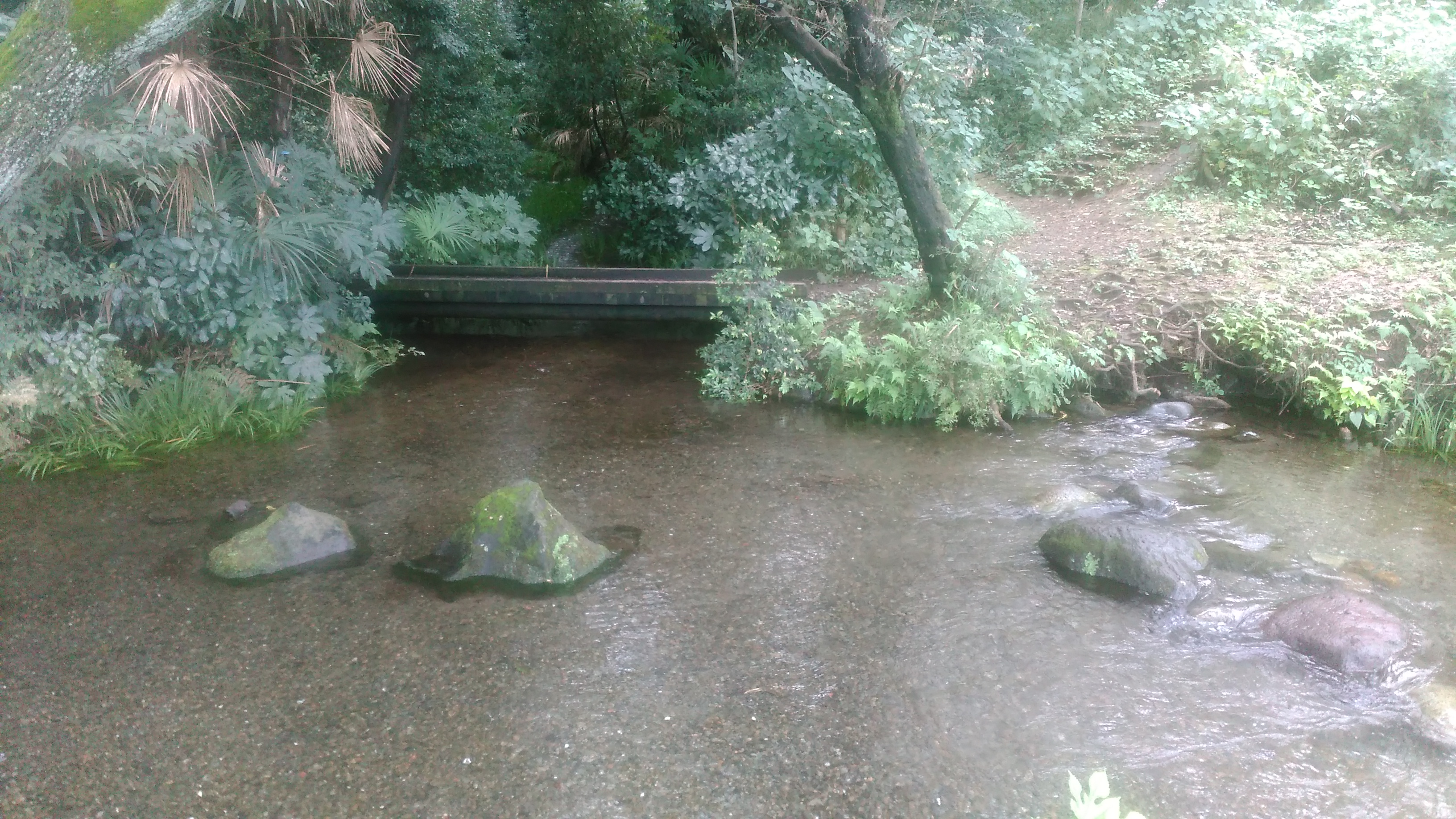 Minamisawa Springs in Higashikurume, Tokyo, Japan.